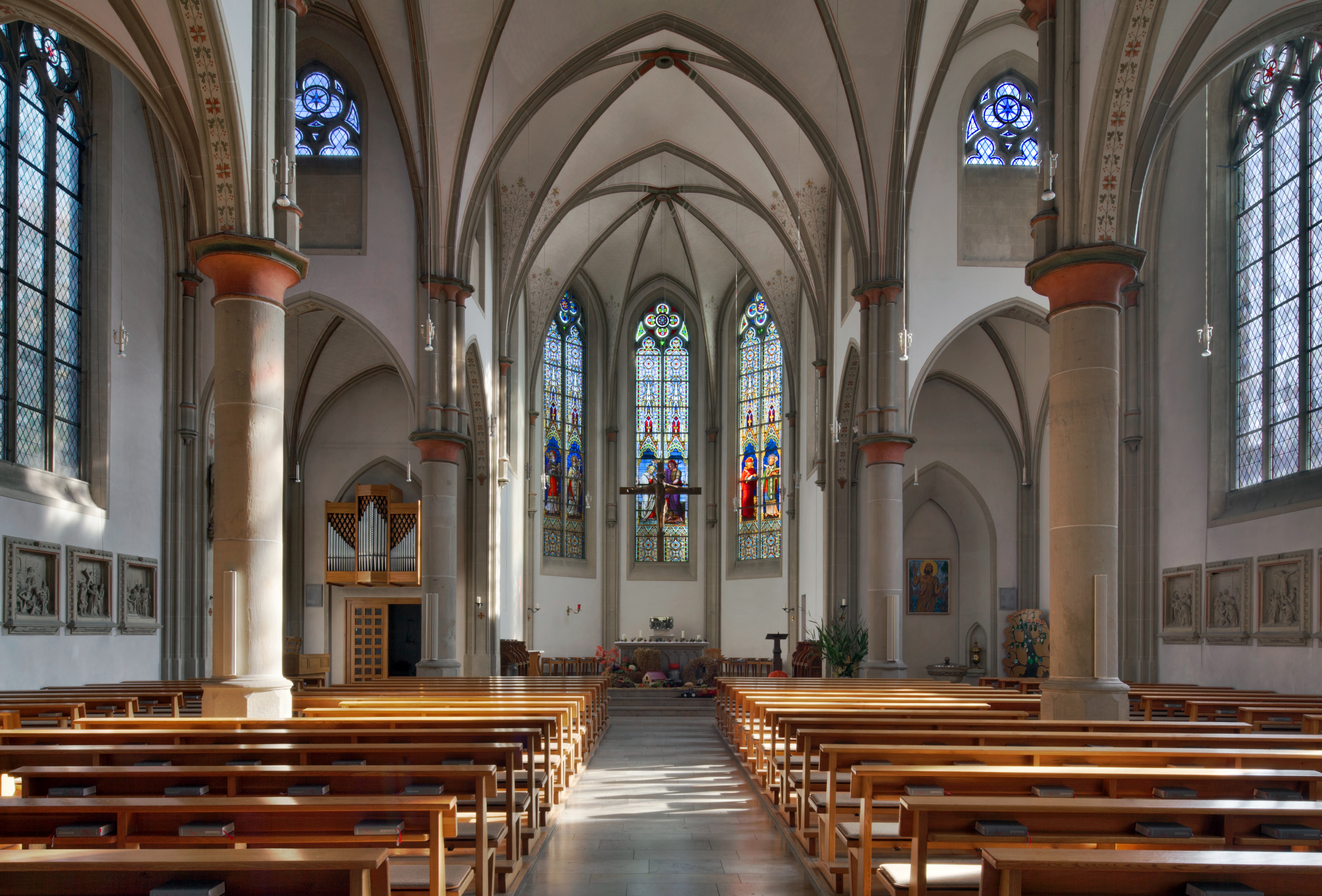 St. Johannes Baptist, Blick zum Chor